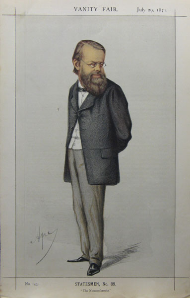 Caricature of Edward Miall (1809-1881). Caption read "The Nonconformist".